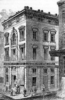 Louisiana State Lottery Company Office Building, New Orleans. Engraving showing 19th century view of building, formerly at corner of St. Charles Avenue & Union Street.